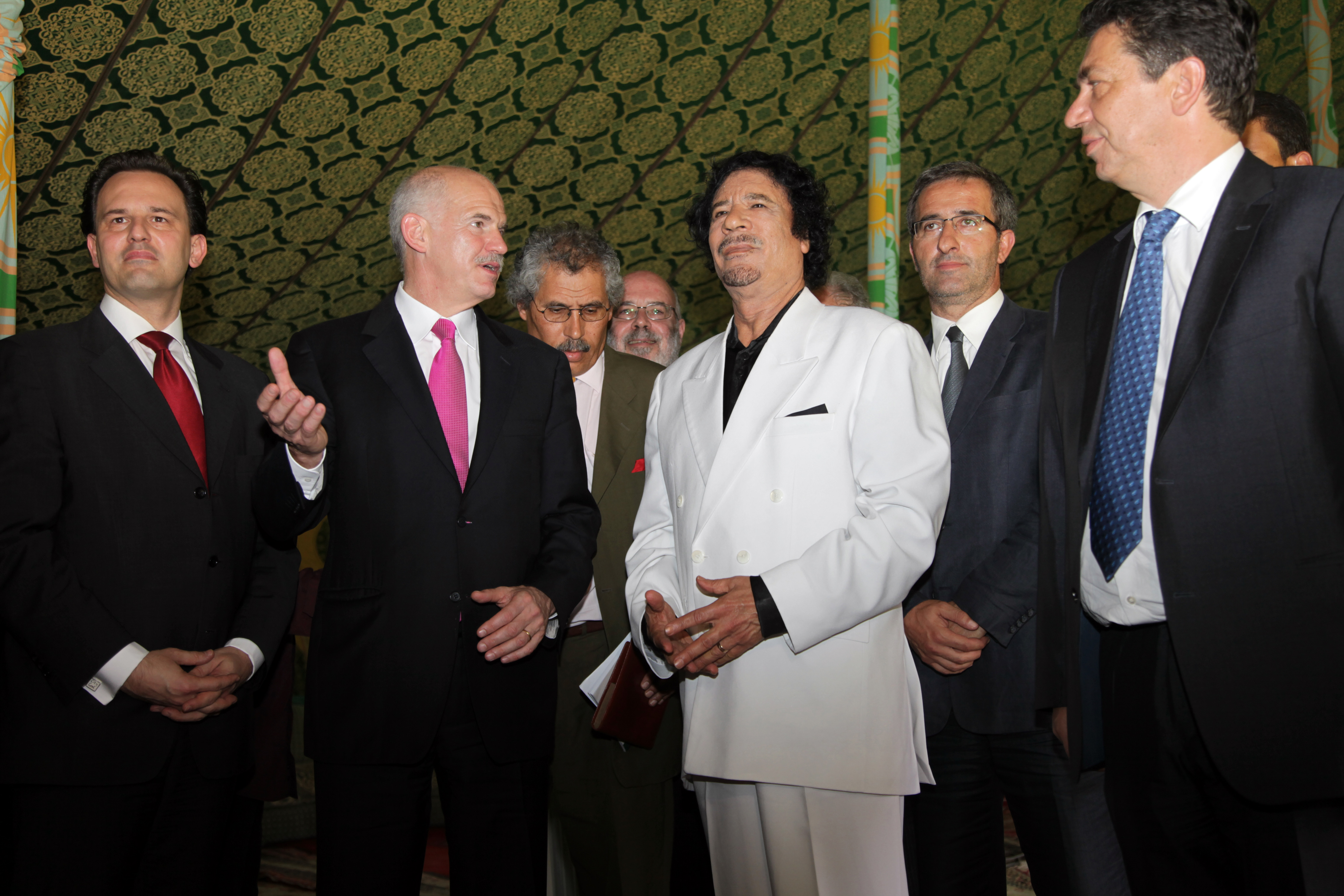 George Papandreou and Muammar Gaddafi, now it's only history.